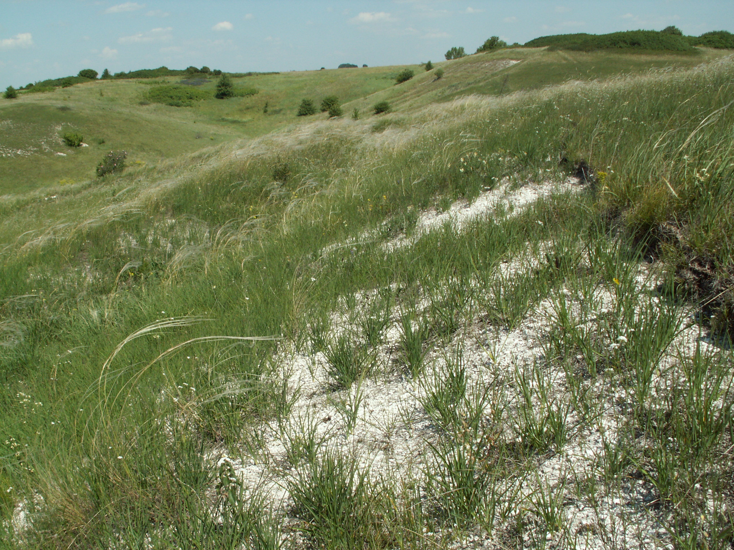 Steppes in Barkalovka, in the Central Tschernosem Zapvednik near Kursk, Russia.